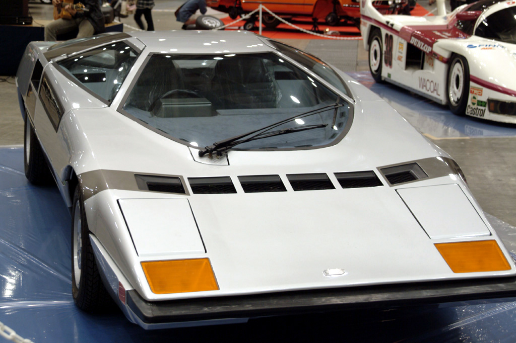 Dome Zero Prototype